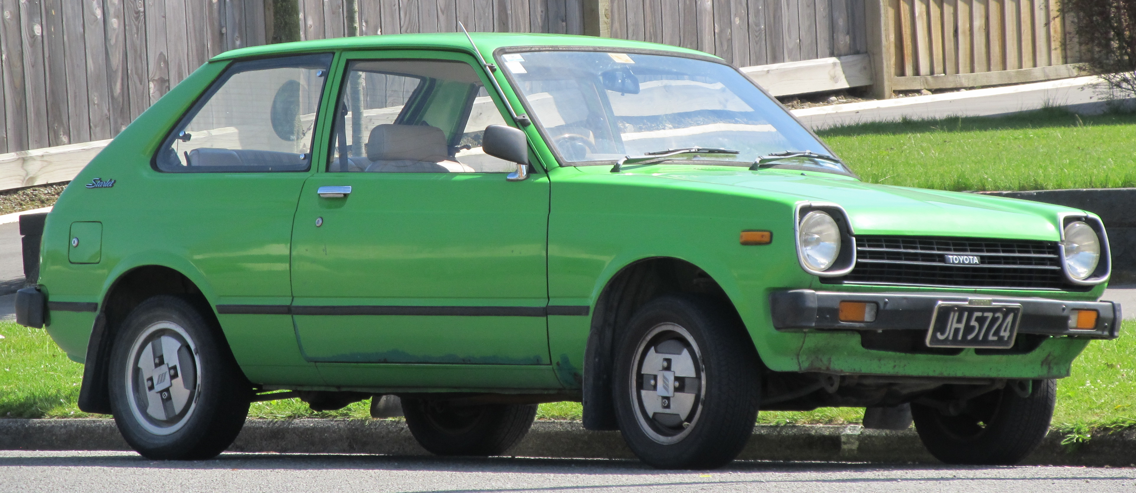 JH5724 These Starlets are so rare now - I knew this one was local but had never been able to stop for a photo until Monday! Screams OAP owner to me - the fact it is entirely original down to the wheeltrims makes me think that. Awesome psychedelic 70s colour on this...